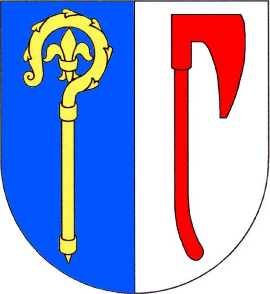 Municipal coat of arms of Vražkov village, Litoměřice District, Czech Republic.